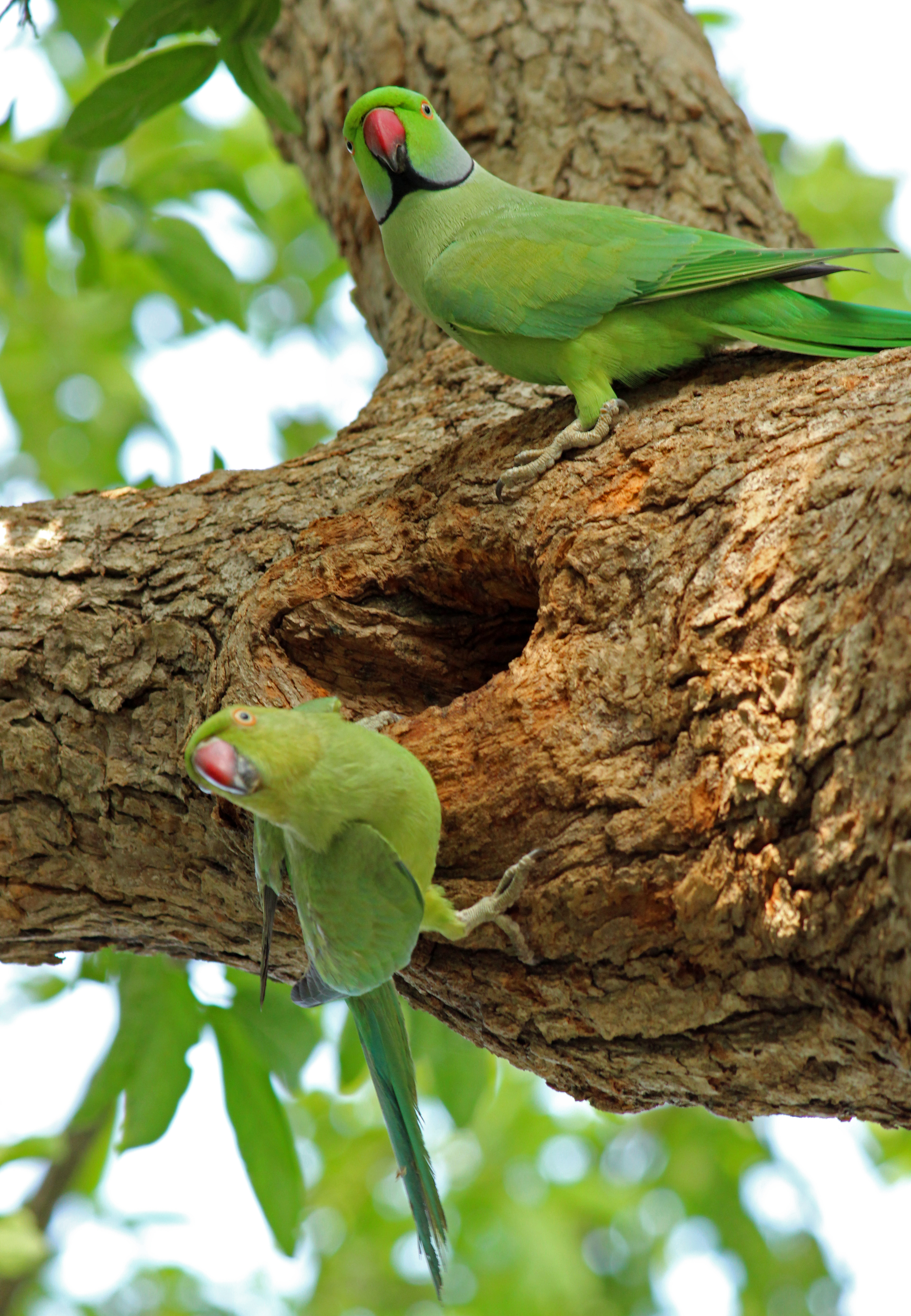 Taken at Vedanthangal, India